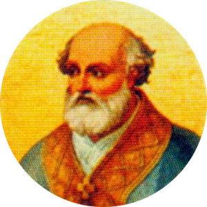 Portait of Pope Paschal II in the Basilica of Saint Paul Outside the Walls, Rome